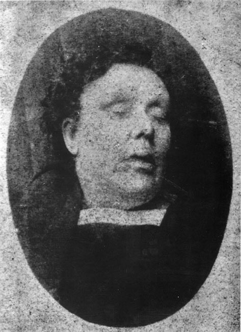 Mortuary photograph of Annie Chapman